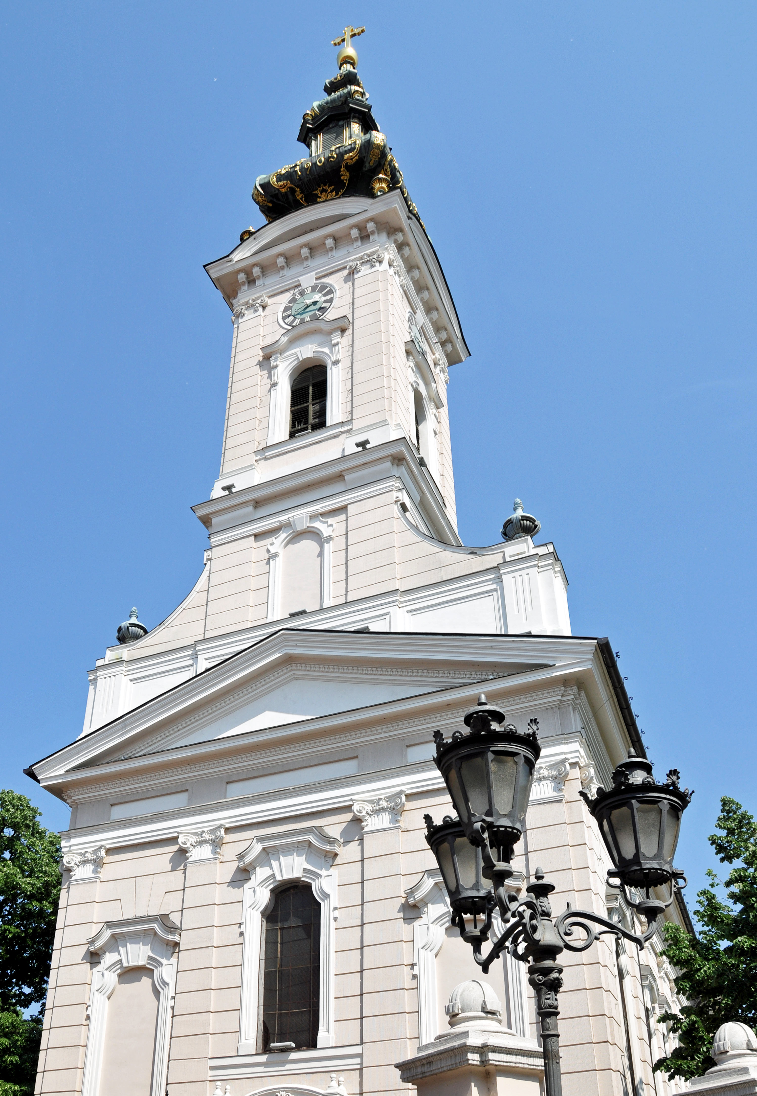 PLEASE, no multi invitations, glitters or self promotion in your comments, THEY WILL BE DELETED. My photos are FREE for anyone to use, just give me credit and it would be nice if you let me know, thanks - NONE OF MY PICTURES ARE HDR. The Orthodox Cathedral of Saint George is a head church of Serbian Orthodox. It was built between 1860 and 1905, after the old temple was almost totally destroyed in the Revolution of 1848/1849. The church was built on the place of older one, dating from 1734. The Novi Sad Orthodox Cathedral is dedicated to the Saint George. Inside the church there are 33 icons on the iconostasis, historical pictures above both choirs, as well as two large throne icons.